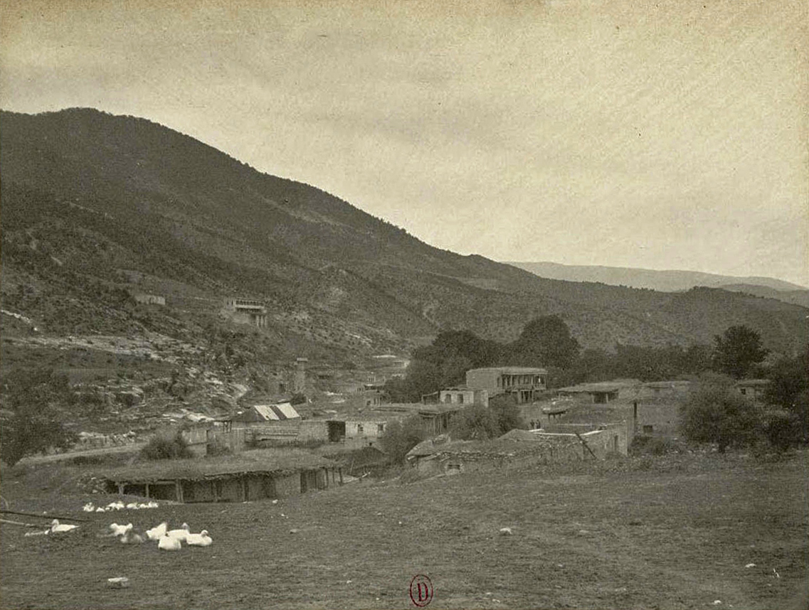 Ijevan in 1891